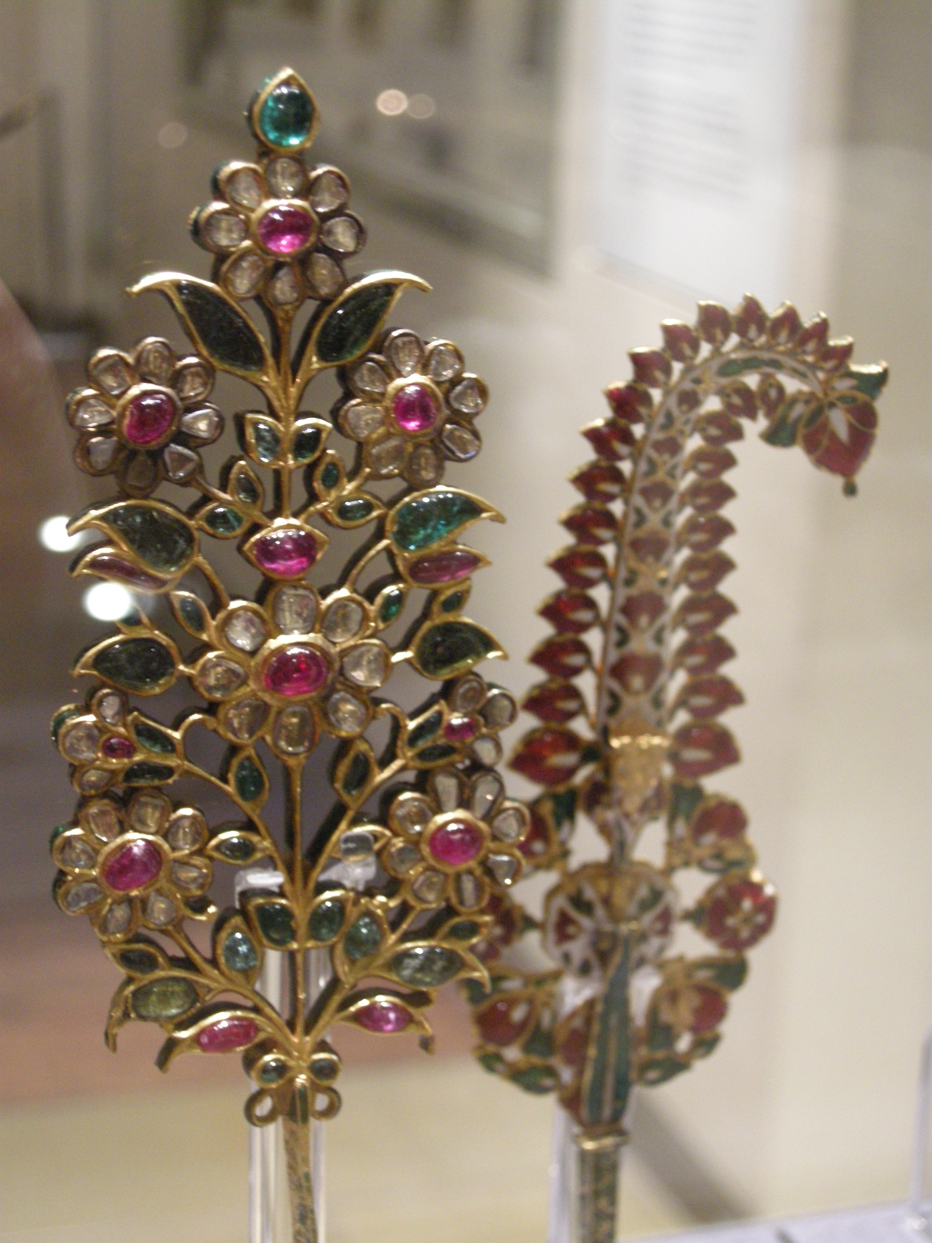 Turban ornament (incomplete) Enamelled gold Possibly Jaipur c.1750 On acquisition this was said to have come from the Jaipur treasury, and to have been made in Jaipur, which was a renowned centre of enamelling. It illustrates the technique used for most gold Mughal jewellery, which was made in two halves (this is the back) separated by a layer of lac, a natural resin which softens when heated. The stones were set into the front over a layer of highly refined gold, through shaped holes cut into the gold. The back was enamelled, and the two parts skilfully joined together. IM.47-1922 Wikipedia Loves Art at the Victoria and Albert Museum This photo of item # [1] at the Victoria and Albert Museum was contributed under the team name "VeronikaB" as part of the Wikipedia Loves Art project in February 2009. Victoria and Albert Museum The original photograph on Flickr was taken by VeronikaB—please add a comment to the original Flickr page whenever a use has been made on Wikipedia or another project. Project galleries on Flickr: this institution, this team